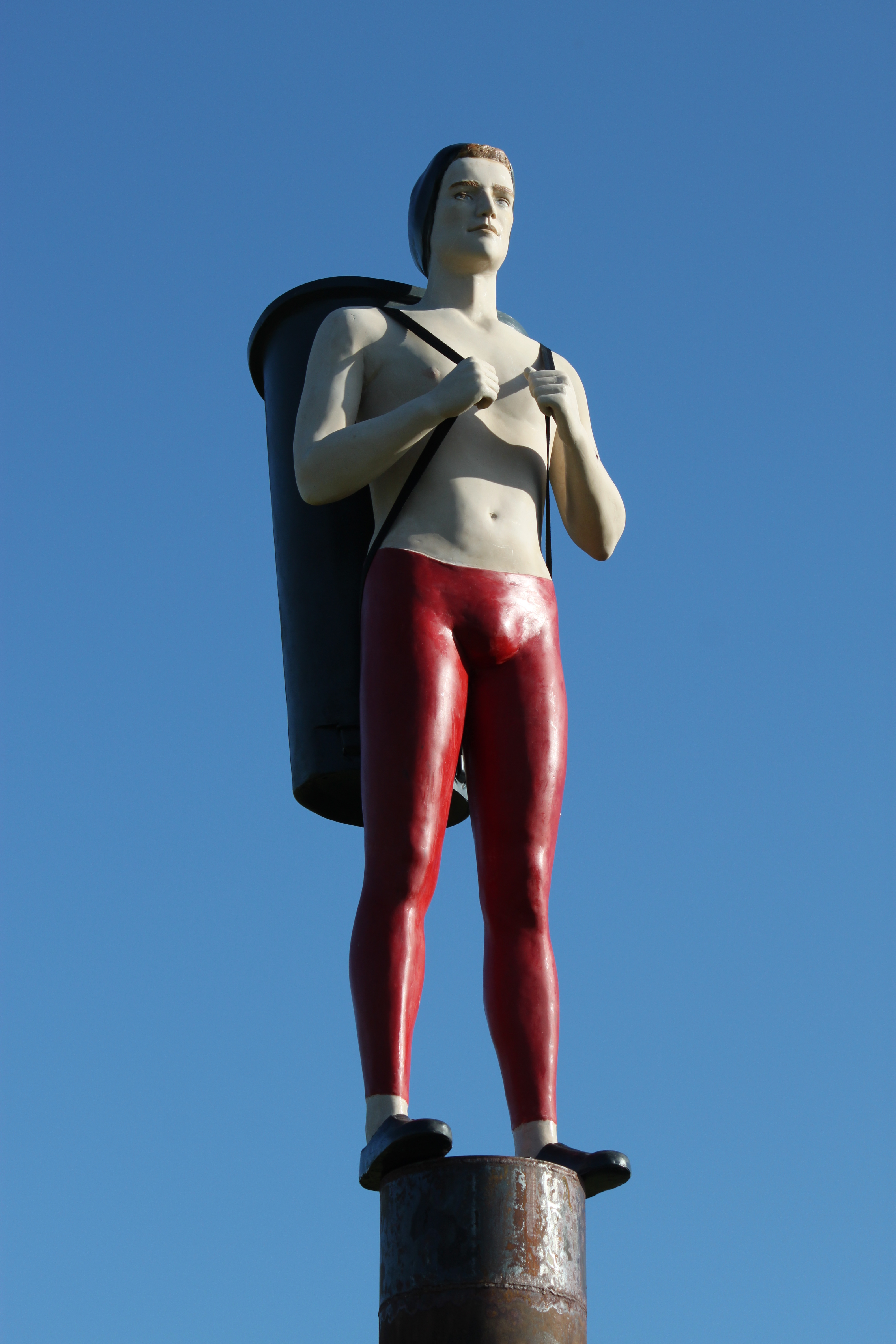 Sculpture, Plasticpolymer resin, 2014